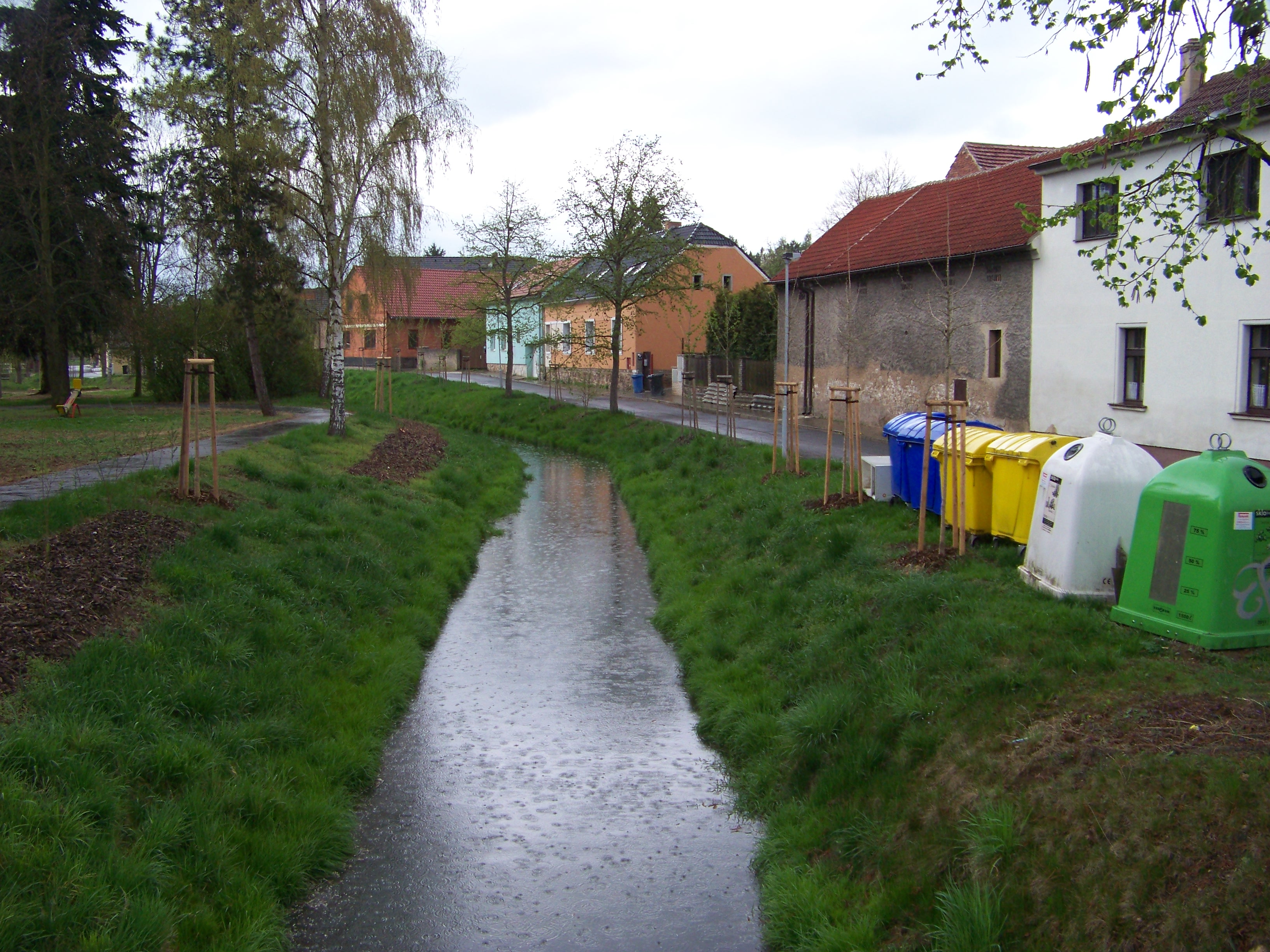 Drahelčice, Prague-West District, Central Bohemian Region, Czech Republic. Malá Strana, Radotín Creek. - Google Maps - Google Earth